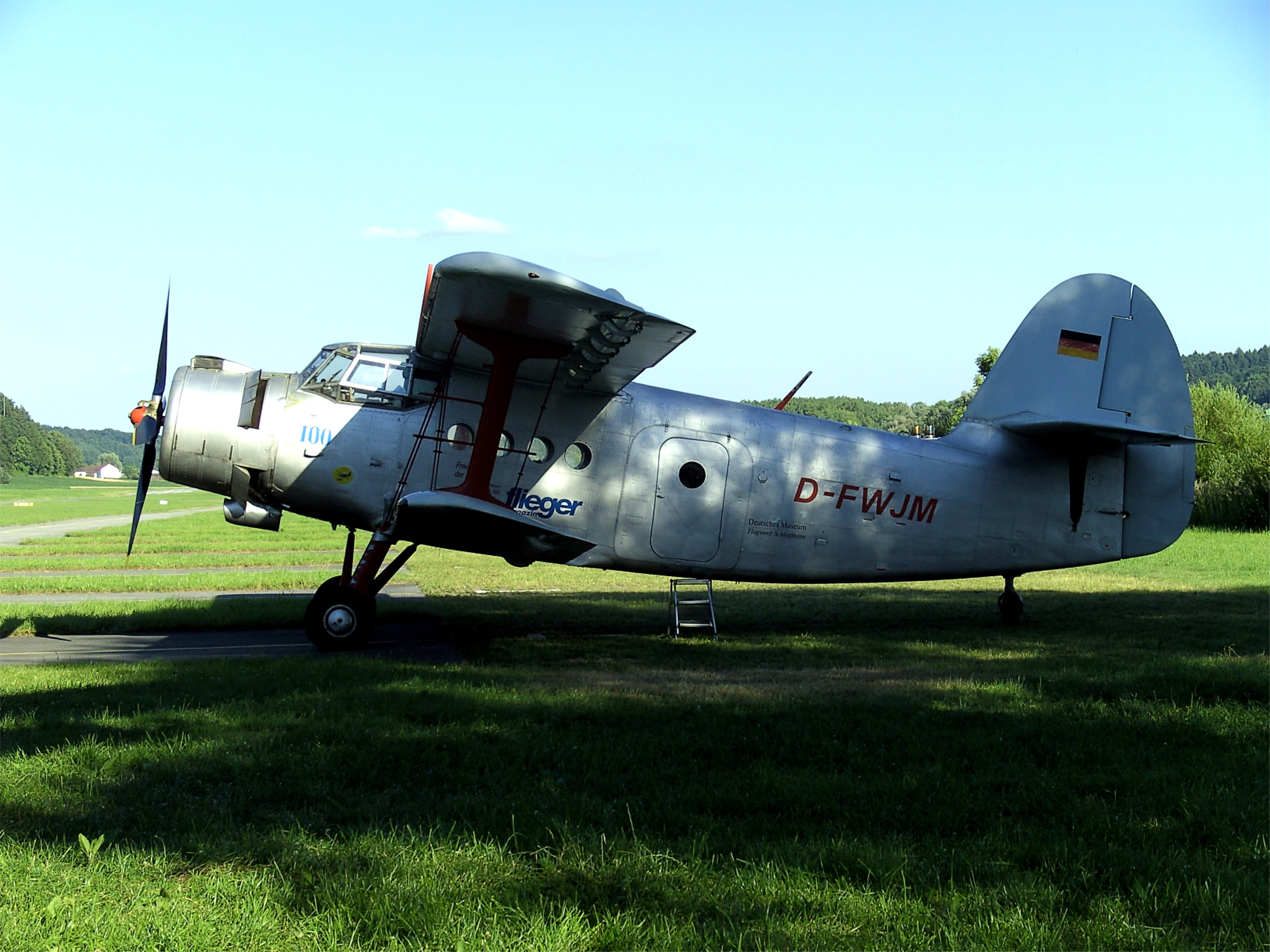 Eine Antonow An-2 in Vilshofen an der Donau im Jahr 2008.